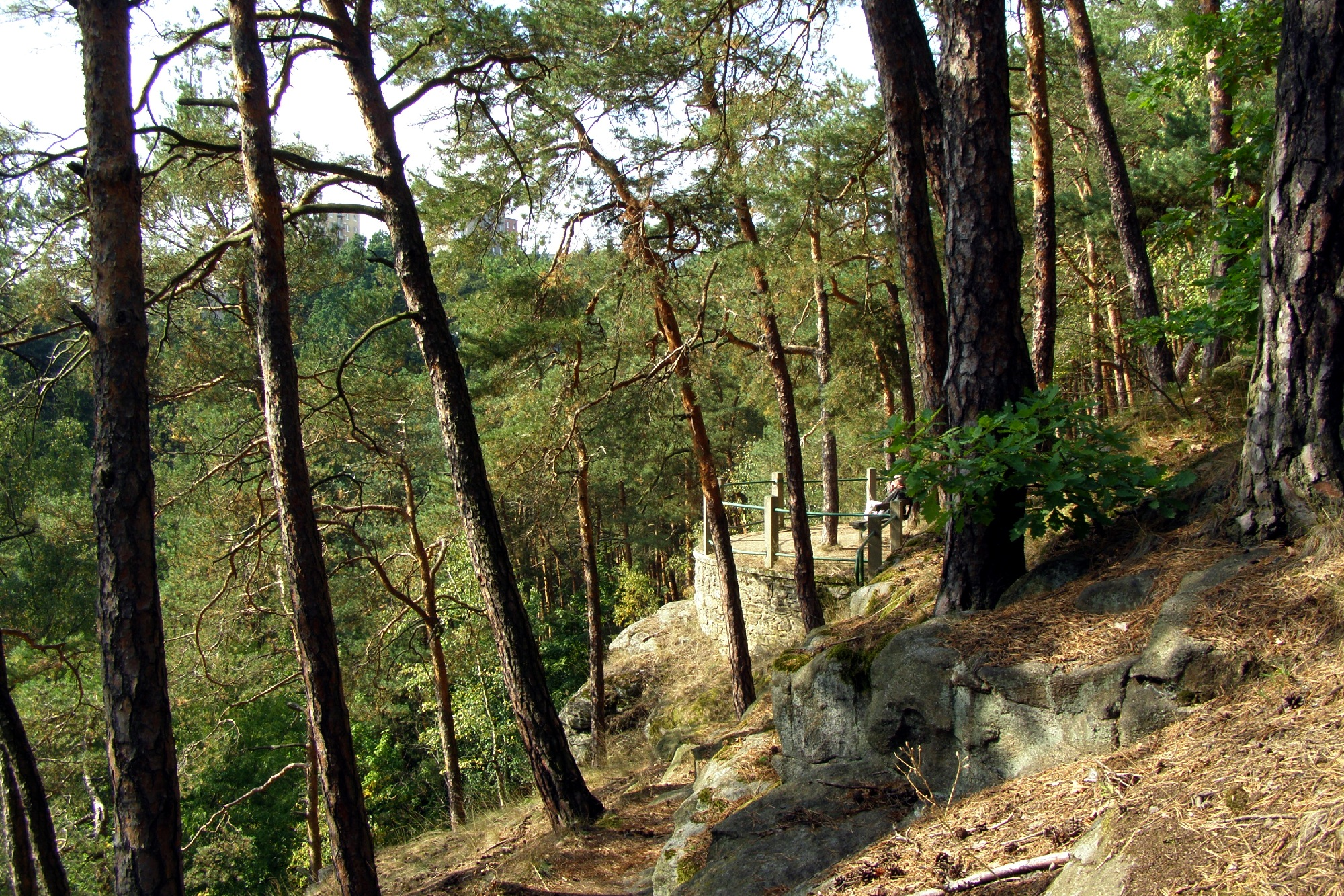 Třebíč-Domky. Libuše valley. Lookout above the quarry